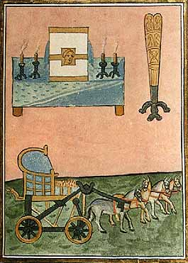 Emblem of the praefectus praetorio per illyricum, according to Notitia Dignitatum